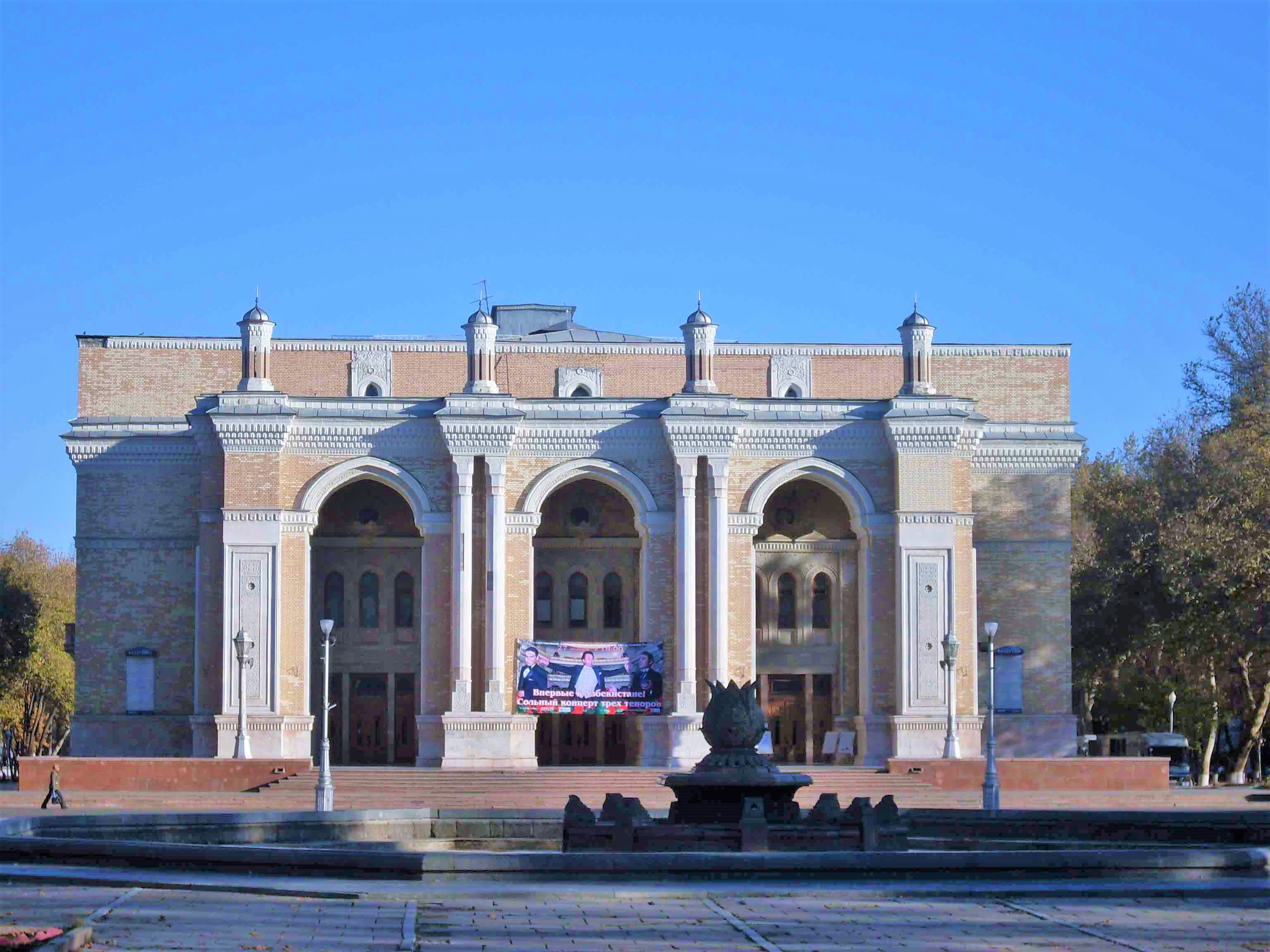 Theatre Alisher Navoi